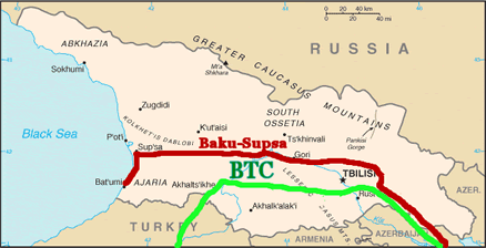 Map of the Baku-Supsa and Baku-Tbilisi-Ceyhan Pipelines throught the nation of Georgia